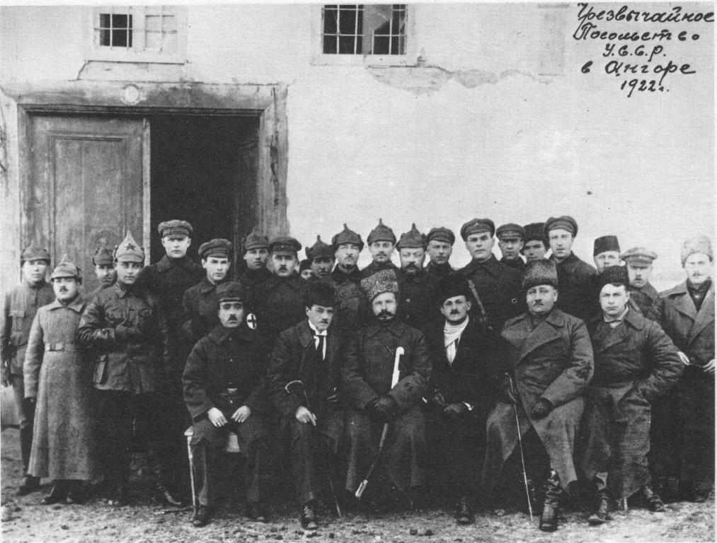 Soviet military leader Mikhail Frunse together with delegation of Ukrainian Soviet Socialist Republic during a diplomatic mission in Samsun, Turkey.